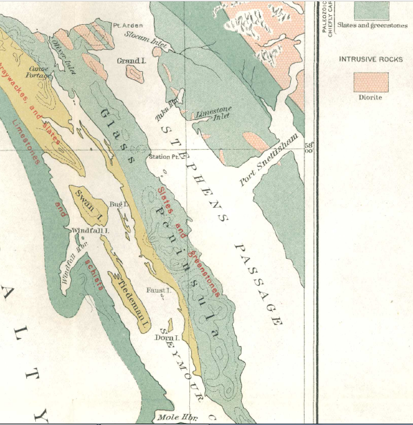 Glass Peninsula geologic map